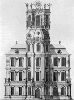 The observatory of Johan Maurits Mohr in Batavia. (Architectural drawing by J. Clement, 1768)